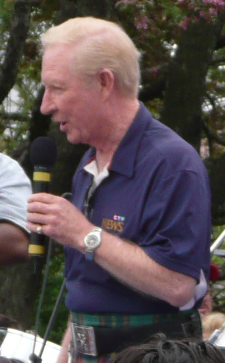 Former CFTO-TV weather presenter Dave Devall